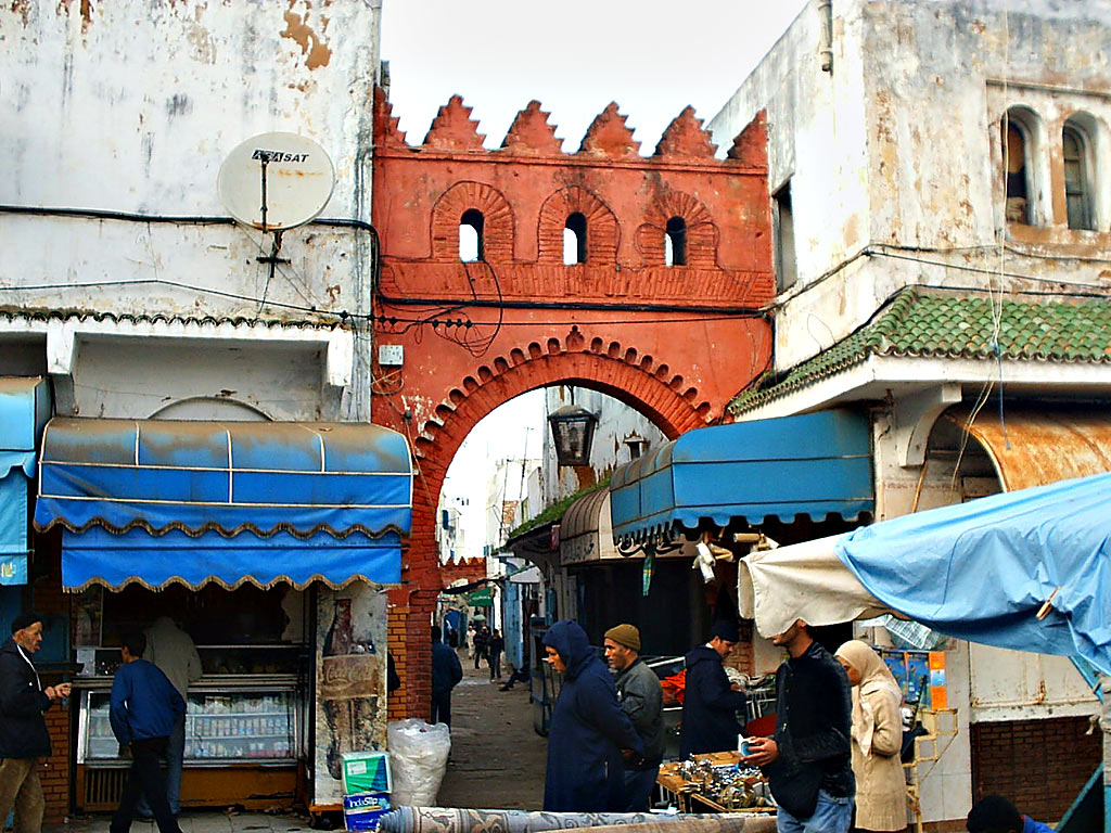 Medina of Larache